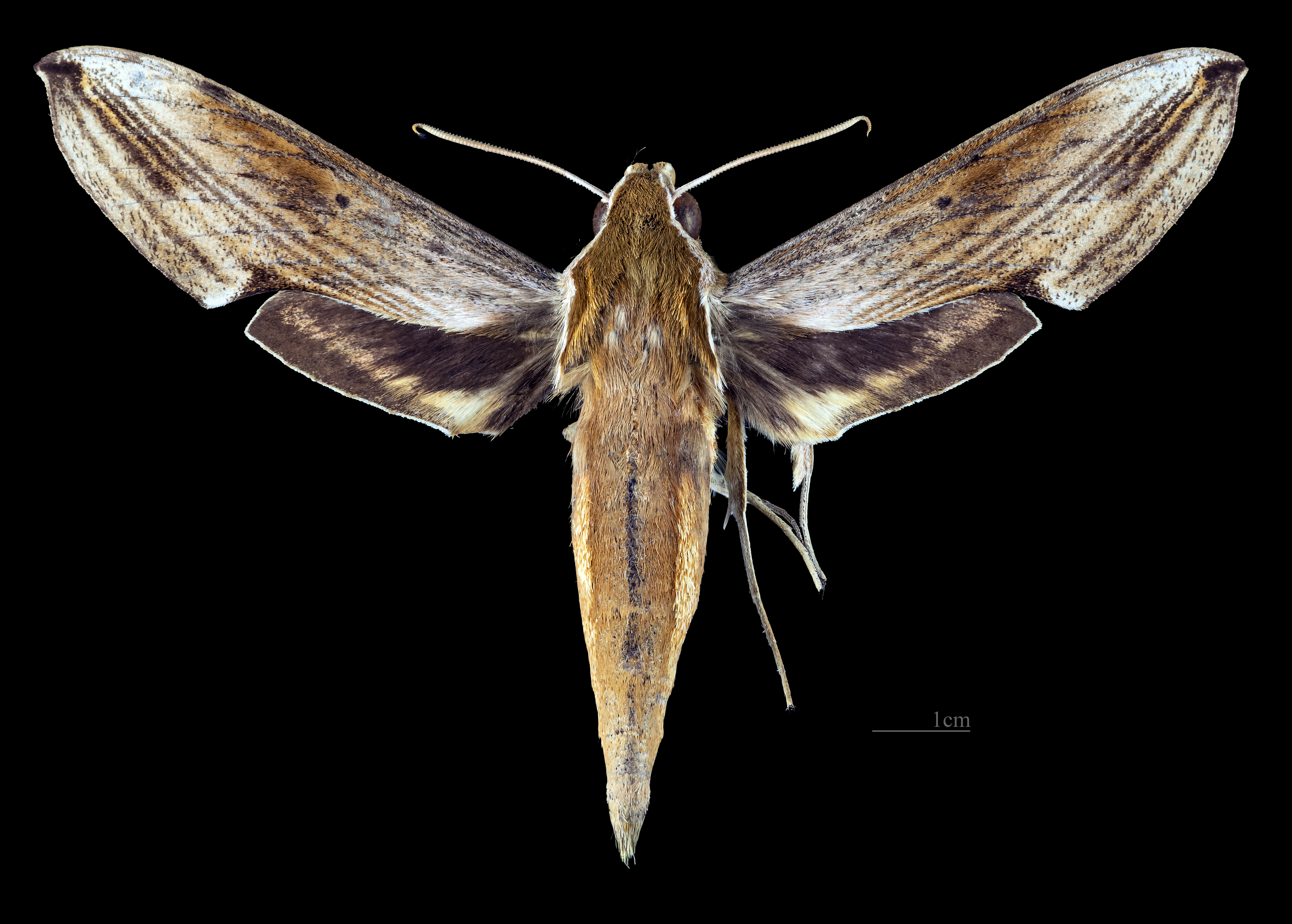 Xylophanes dolius -Dorsal side Collection of the Mathematician Laurent Schwartz